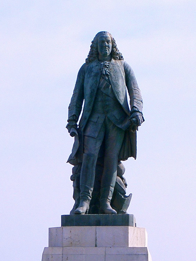 Statue of Joseph François Dupleix in Pondicherry.